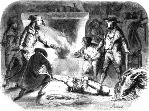 Chauffeurs at work in the 19th Century